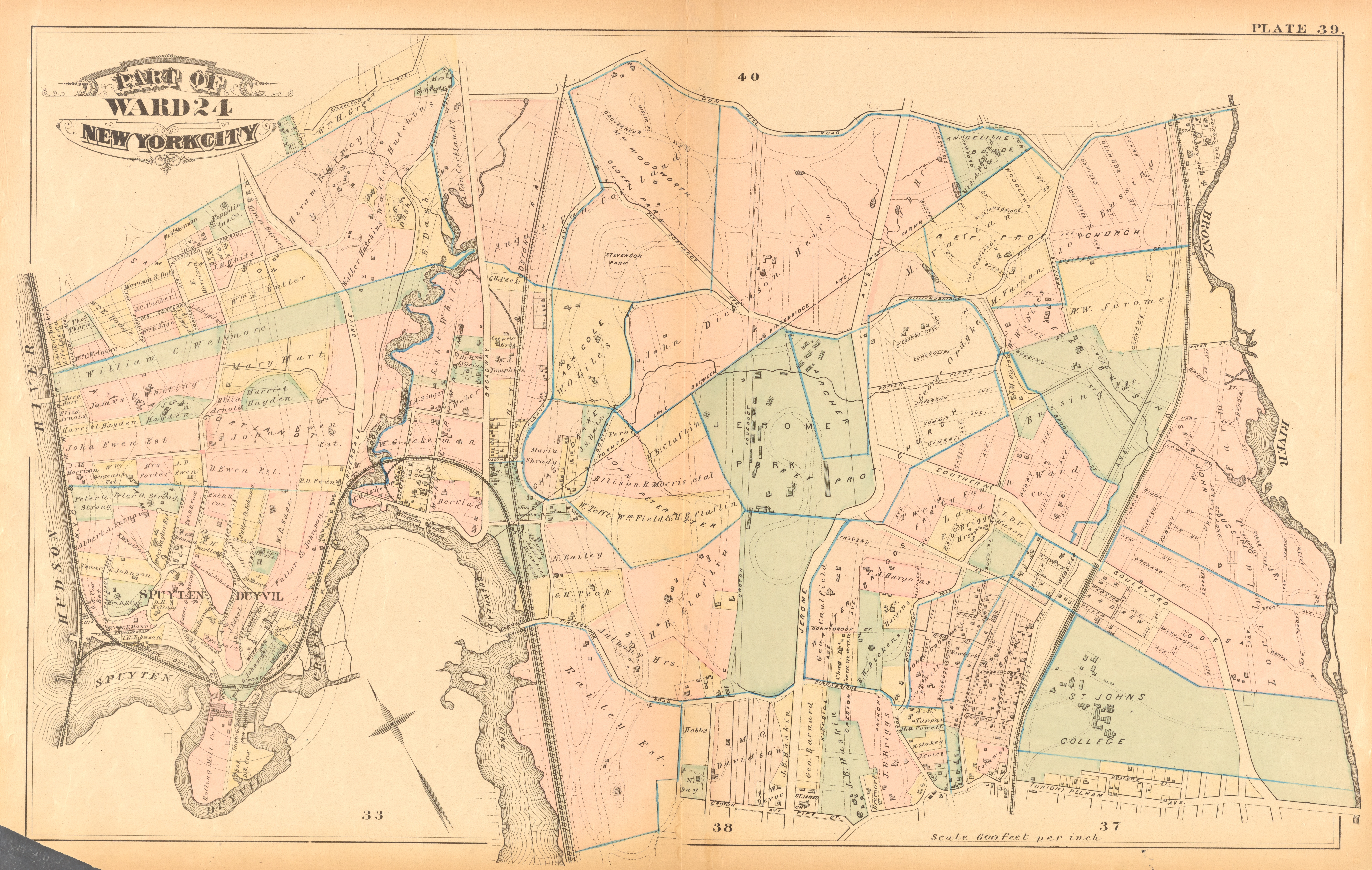 Plate 39 from: G. W. Bromley & Co. Atlas of the Entire City of New York. Complete in One Volume. (New York: Geo. W. Bromley & E. Robinson, 1879) FOR KEY TO MAP SYMBOLS, CLICK HERE.